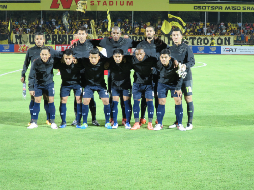 Suphanburi FC in 2016 ahead of the game against Osotspa FC